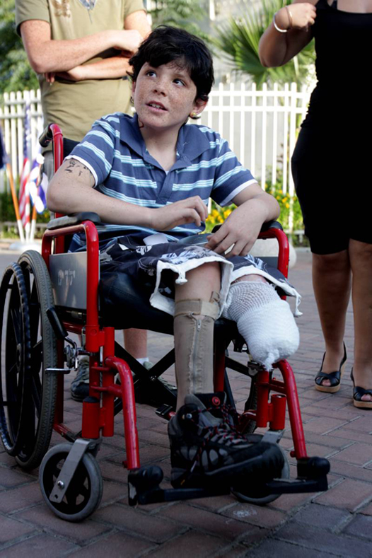 9-years old boy Osher Twito copes with loss of his leg.Osher and his and his big brother Rami were seriously hurt when a Qassam exploded next to them in Sderot. Doctors were forced to amputate Osher's left leg and just barely saved his right leg following eight operations. The nine-year-old boy is still having trouble comprehending what that means.